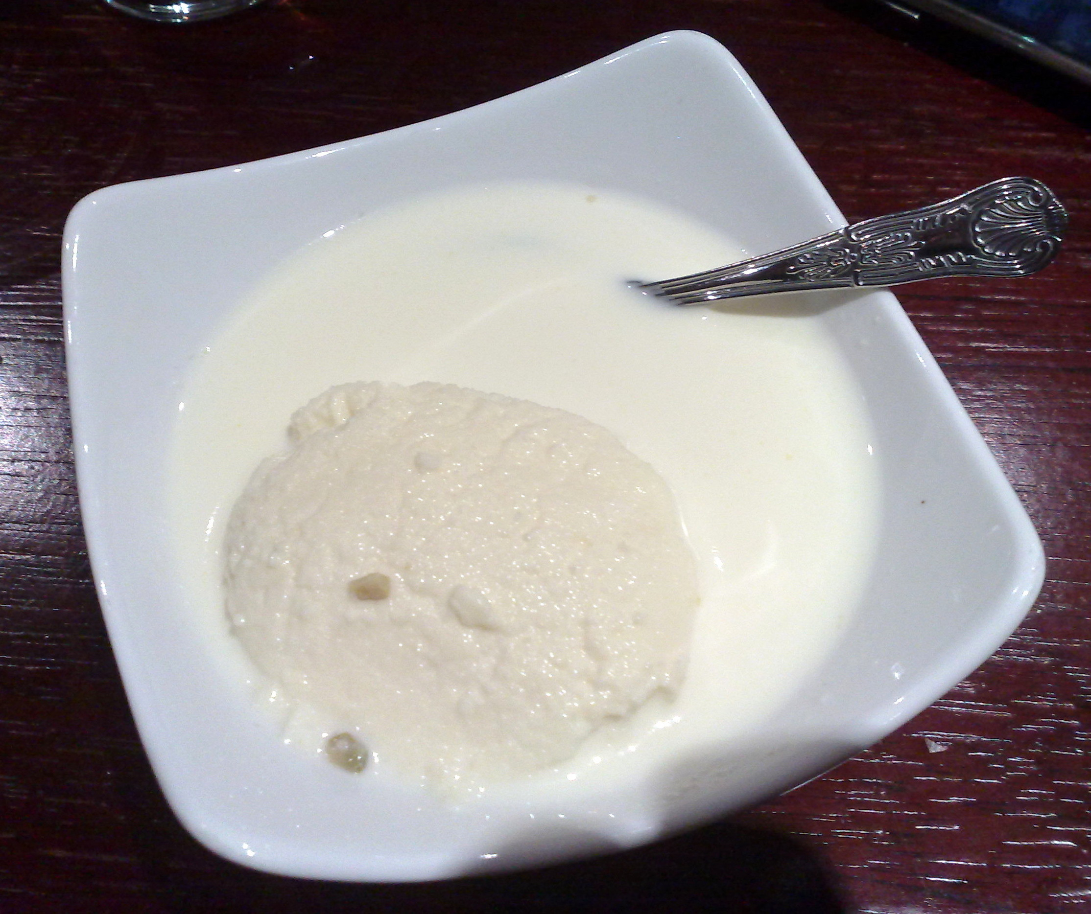 Rasmalai Indian dessert.